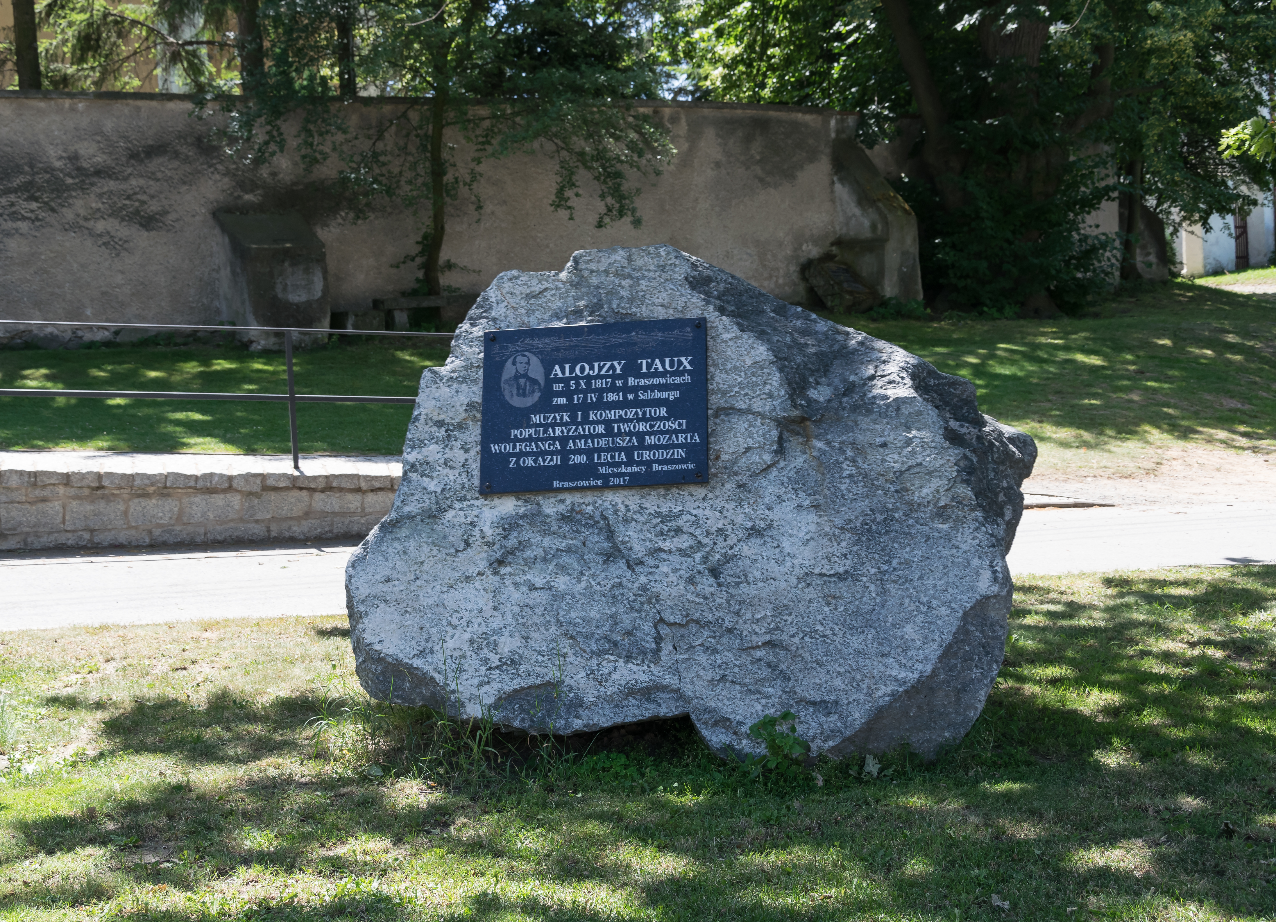 Alois Taux memorials in Braszowice